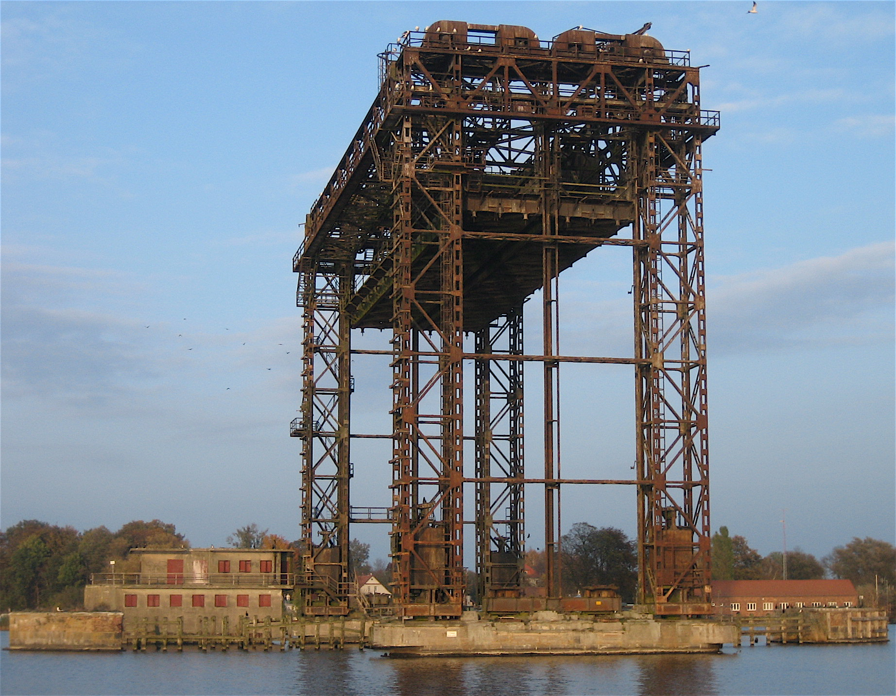 Side view of the destroyed lift train bridge in Karnin, Germany. Photo taken during a boat journey.